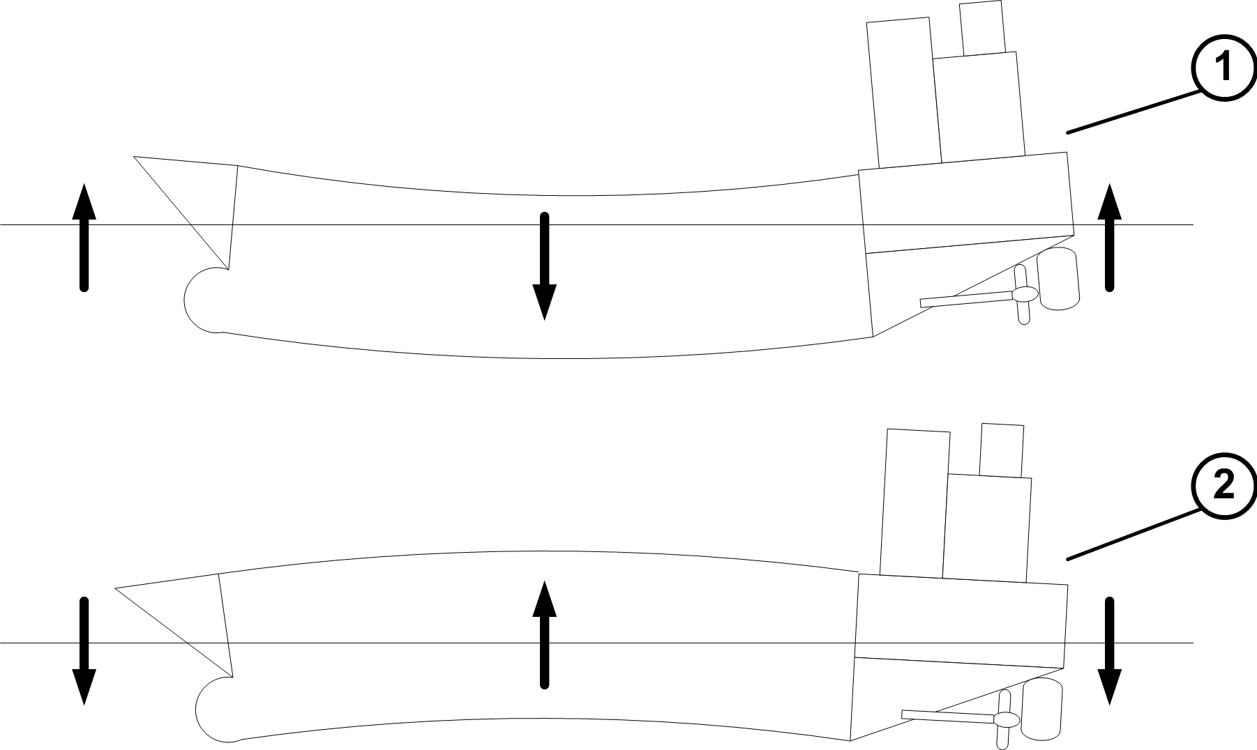 This drawing depicting a ship's hull hogging and sagging (see also Strength of ships) was prepared by George William Herbert on May 1, 2006. It is released for Wikipedia and any other use under the Creative Commons Attribution Share-Alike license revision 2.5.